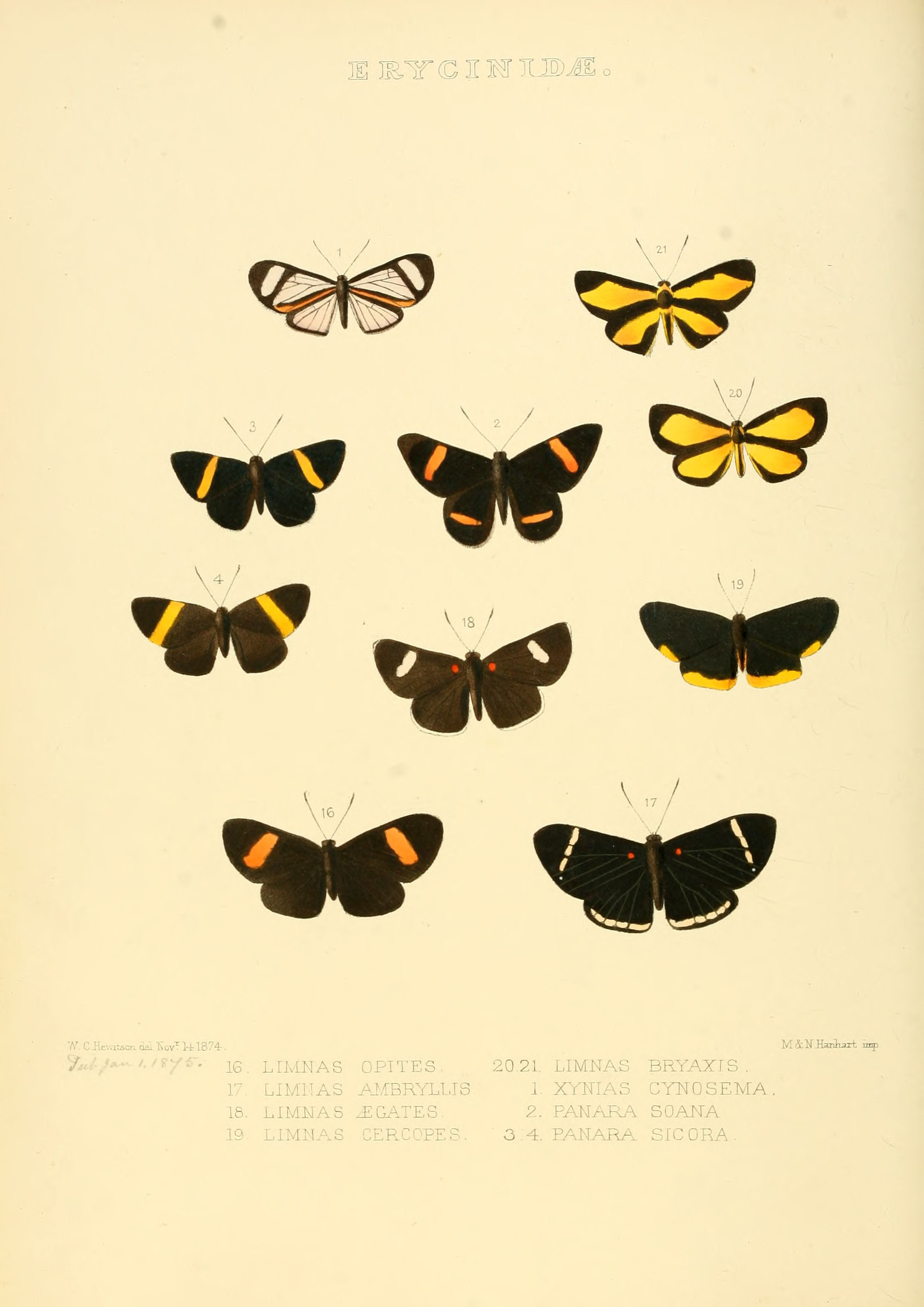 Plate: Limnas, Xynias & Panara Limnas opites. Fig. 16. Accepted as Melanis opites (Hewitson, 1875). Limnas ambryllis. Fig. 17. Accepted as Melanis xenia (Hewitson, 1853). Limnas ægates. Fig. 18. Accepted as Melanis aegates (Hewitson, 1874). Limnas cercopes. Fig. 19. Accepted as Melanis cercopes (Hewitson, 1874). Limnas bryaxis. Figs. 20, 21. Accepted as Mesenopsis bryaxis (Hewitson, 1870). Xynias cynosema. Fig. 1. Accepted as Xynias lithosina (Bates, 1868). Panara soana. Fig. 2. Accepted as Panara soana Hewitson, 1875. Panara sicora. Figs. 3, 4. Accepted as Pterographium sicora (Hewitson, 1875).